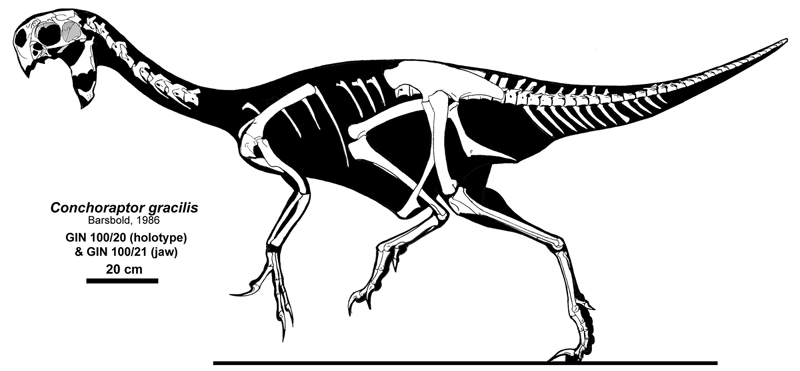 Skeletal reconstruction of Conchoraptor gracilis.